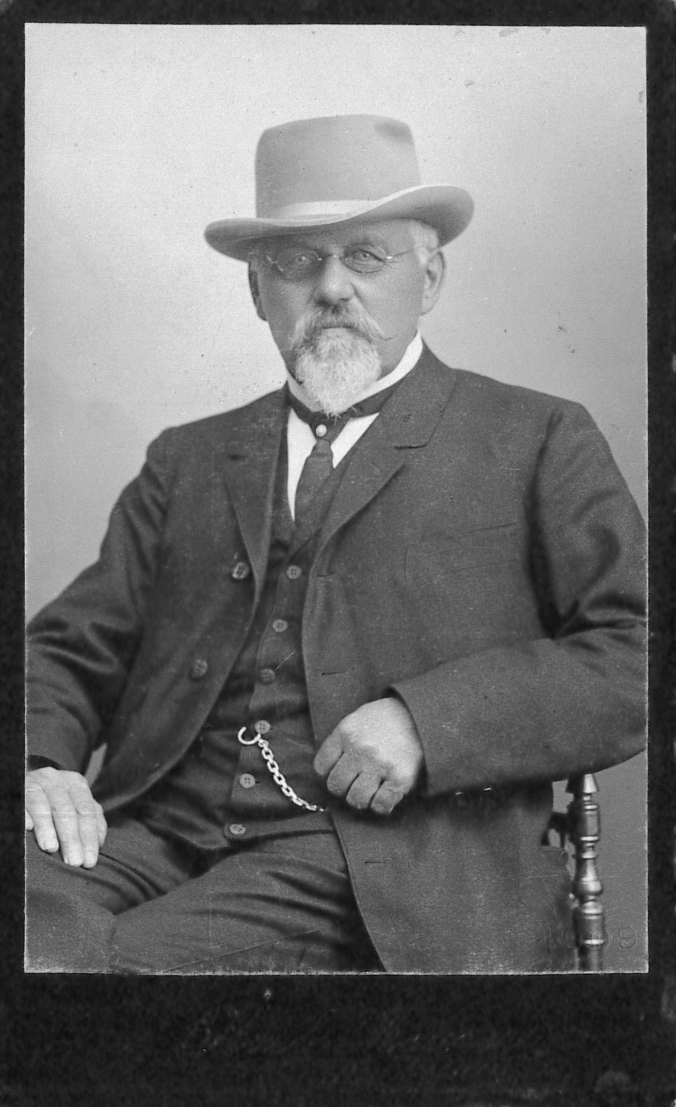 Anton Hoch (1842-1919), building supervisor and director of the cement factories of the "Stuttgart real estate and construction company" in Blaubeuren, Allmendingen and Ehingen (Donau)